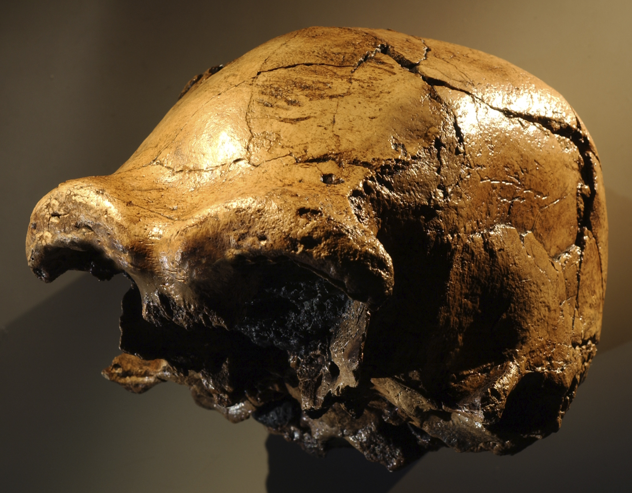 Photo of cast of Daka Homo erectus calvaria